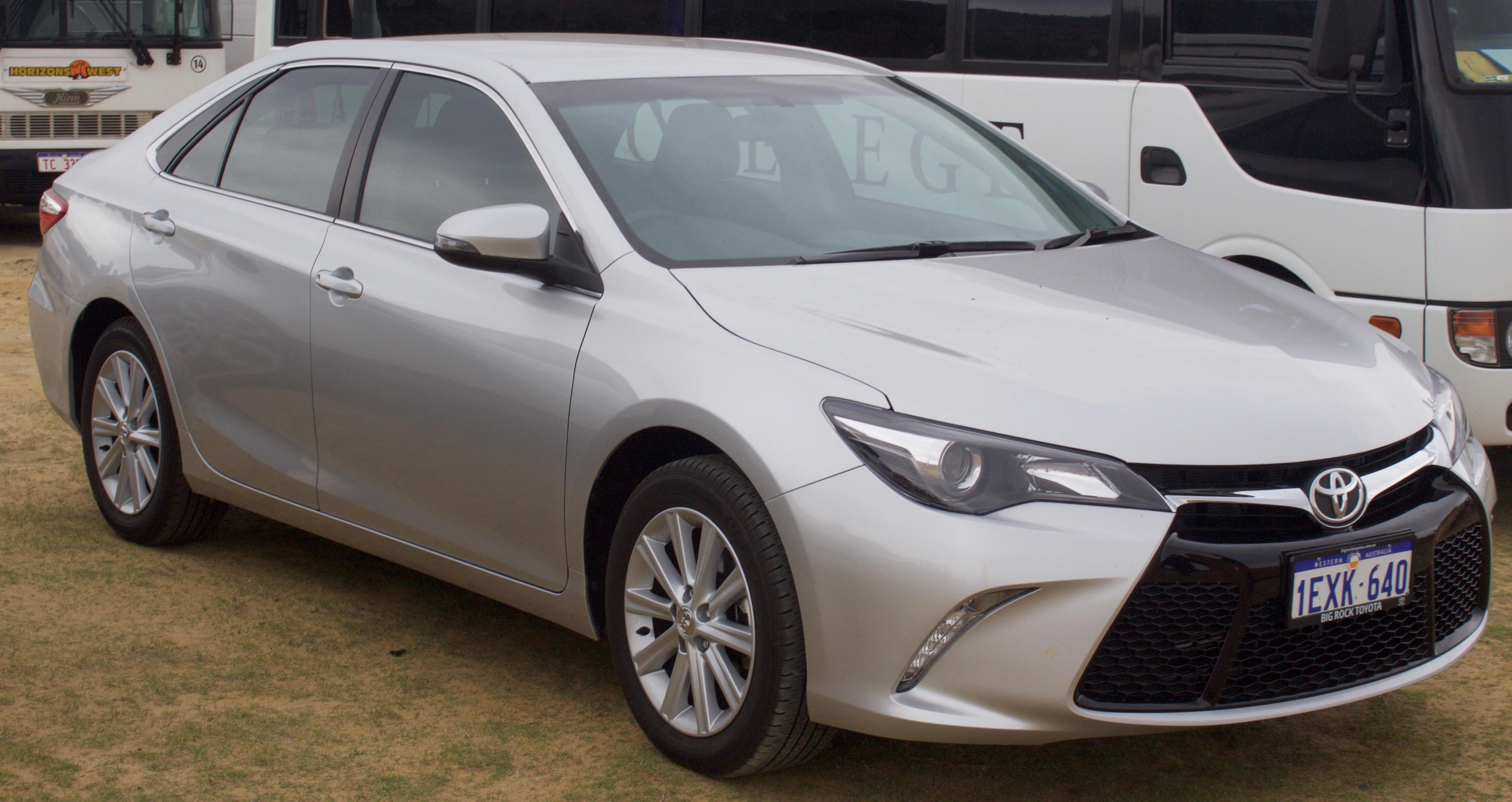 2015 Toyota Camry (ASV50R) Atara S sedan. Photographed in Kelmscott, Western Australia, Australia.